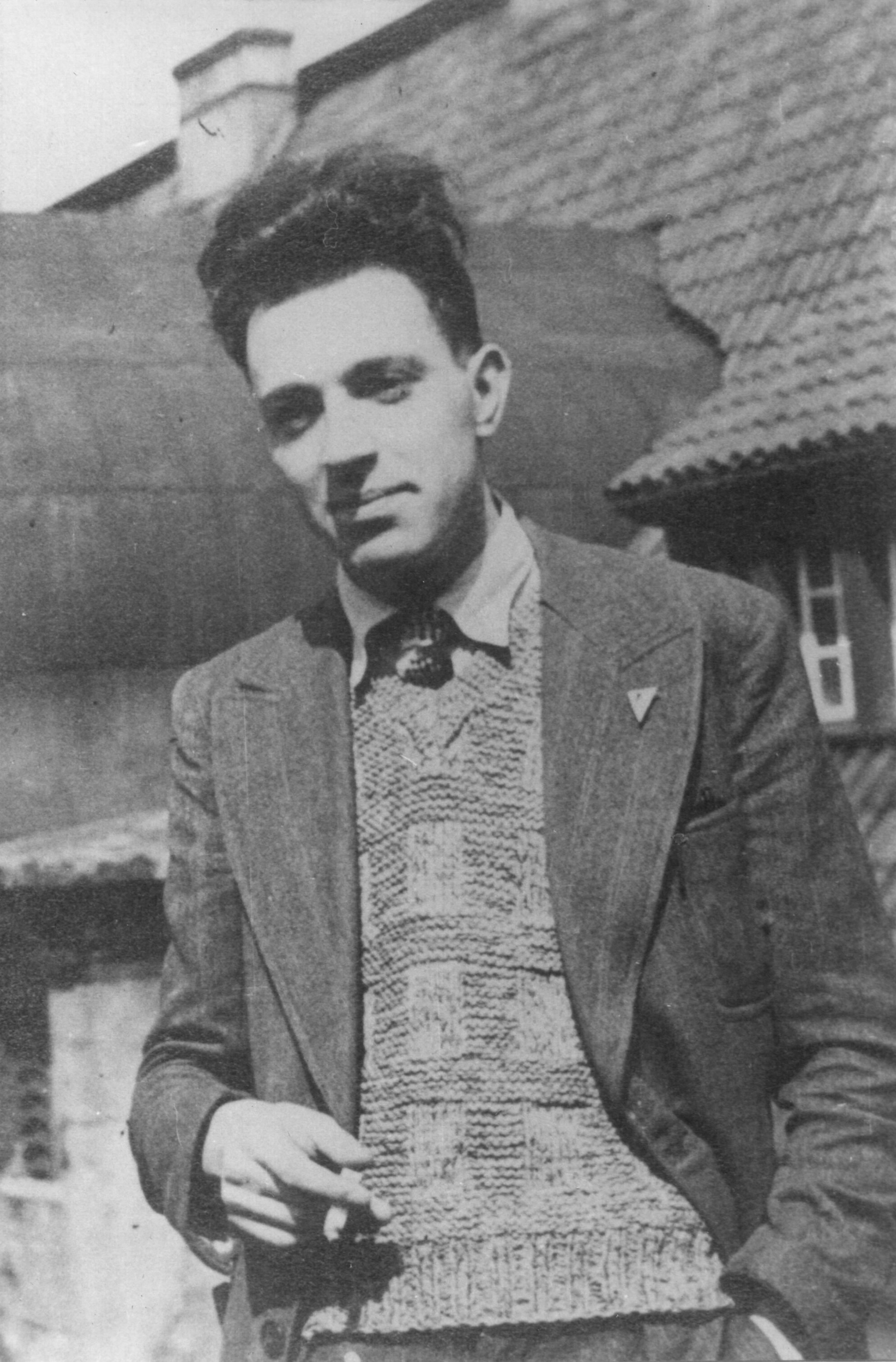 Rostislav Kaishev assistant professor